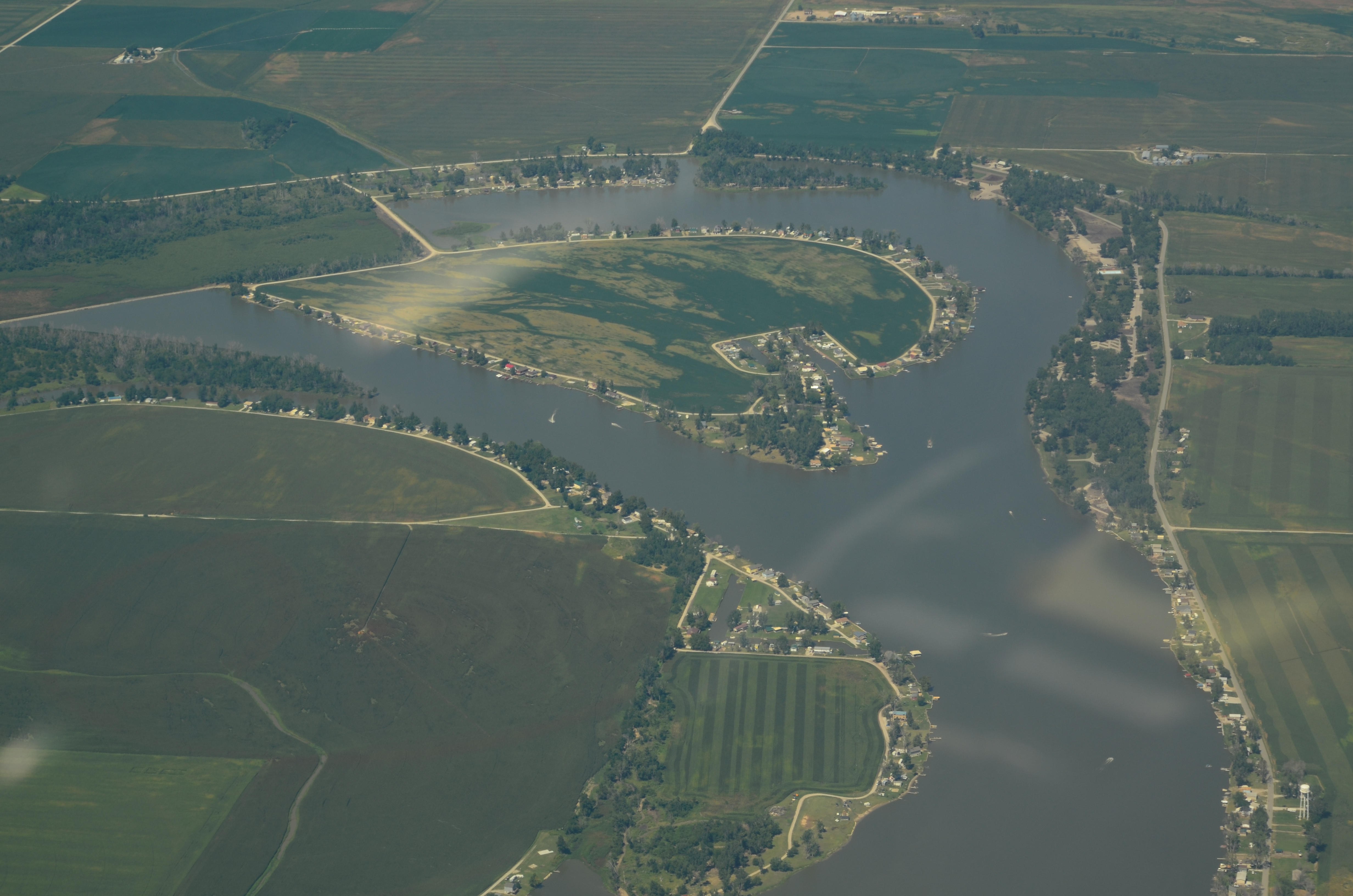 Aerial view of Big Lake, Missouri